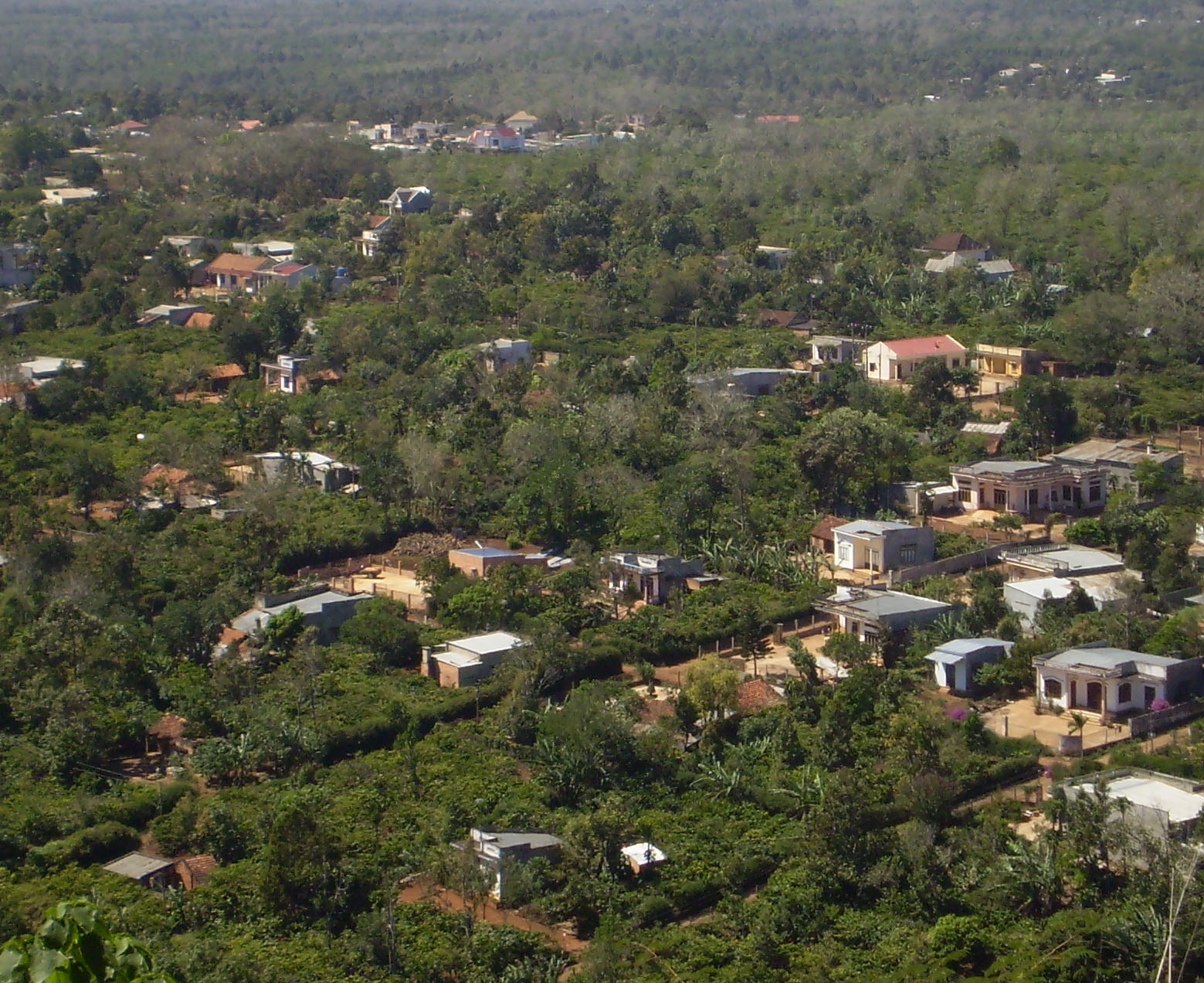 Villages in Dak Lak Province, Vietnam